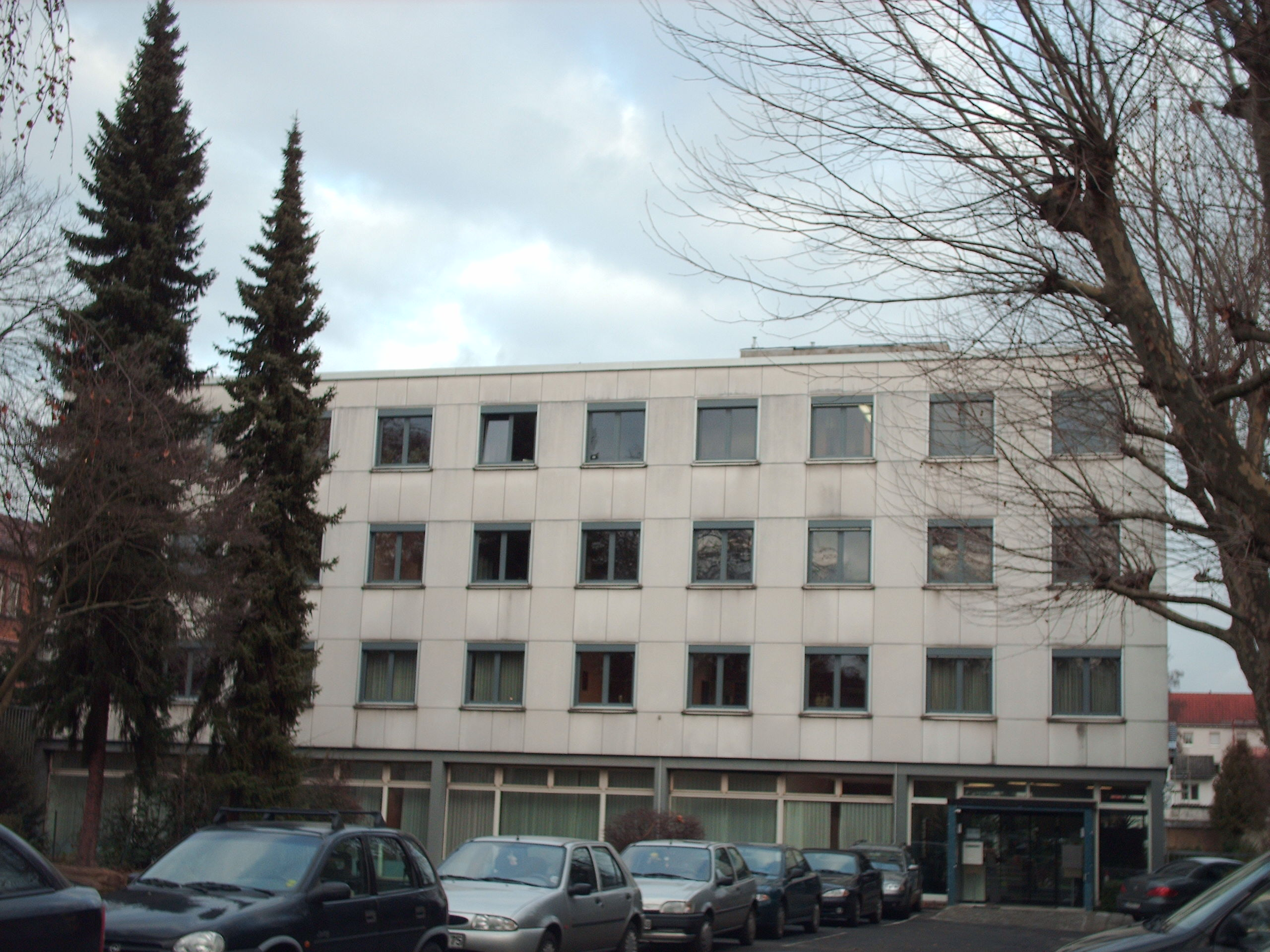 Courthouse Sozialgericht Gießen, Gießen, Germany check usage